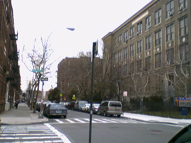 P.S. 225 The Eileen E. Zaglin School, one of the public schools in Brighton Beach Area